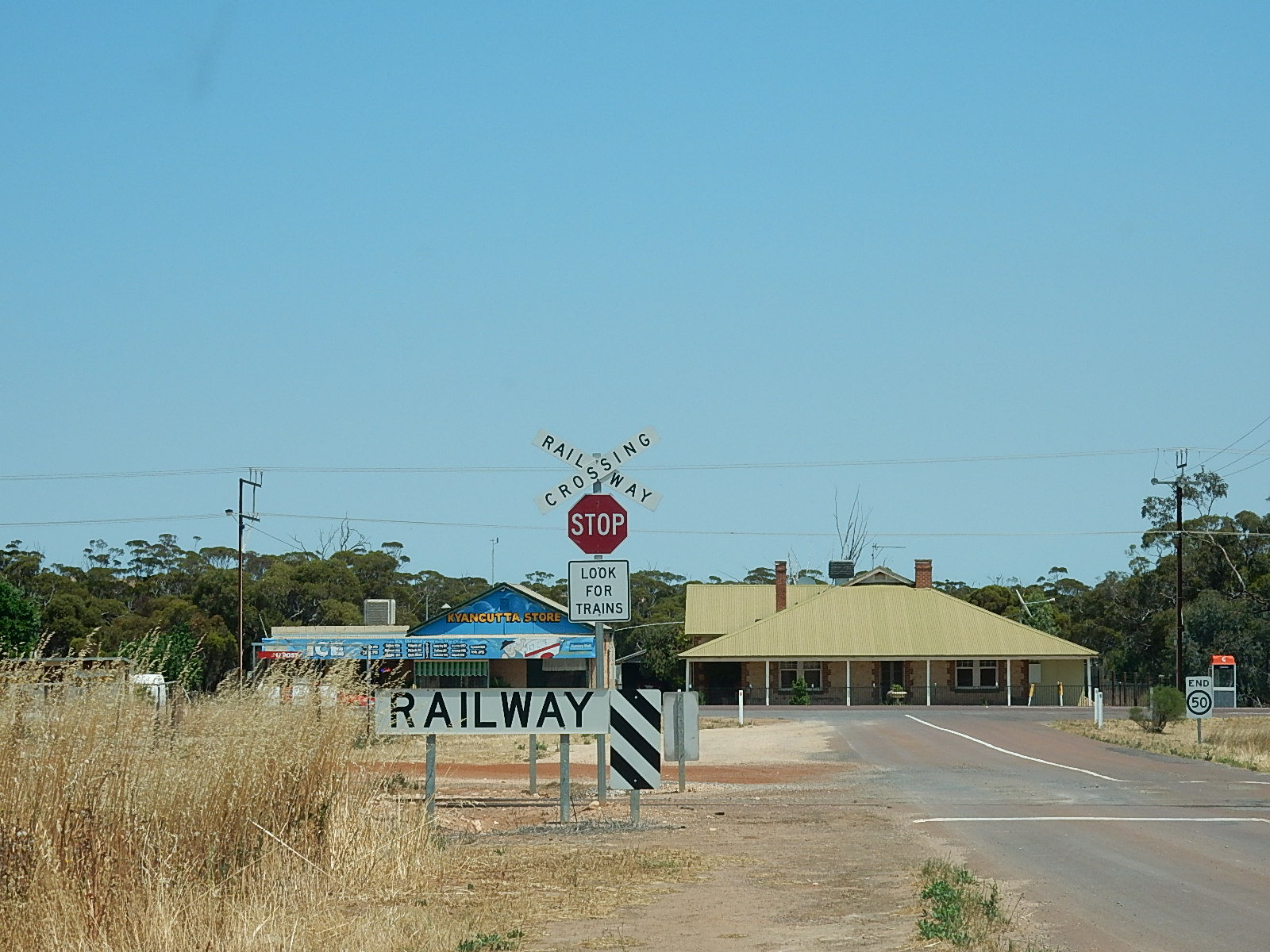 Home and Store